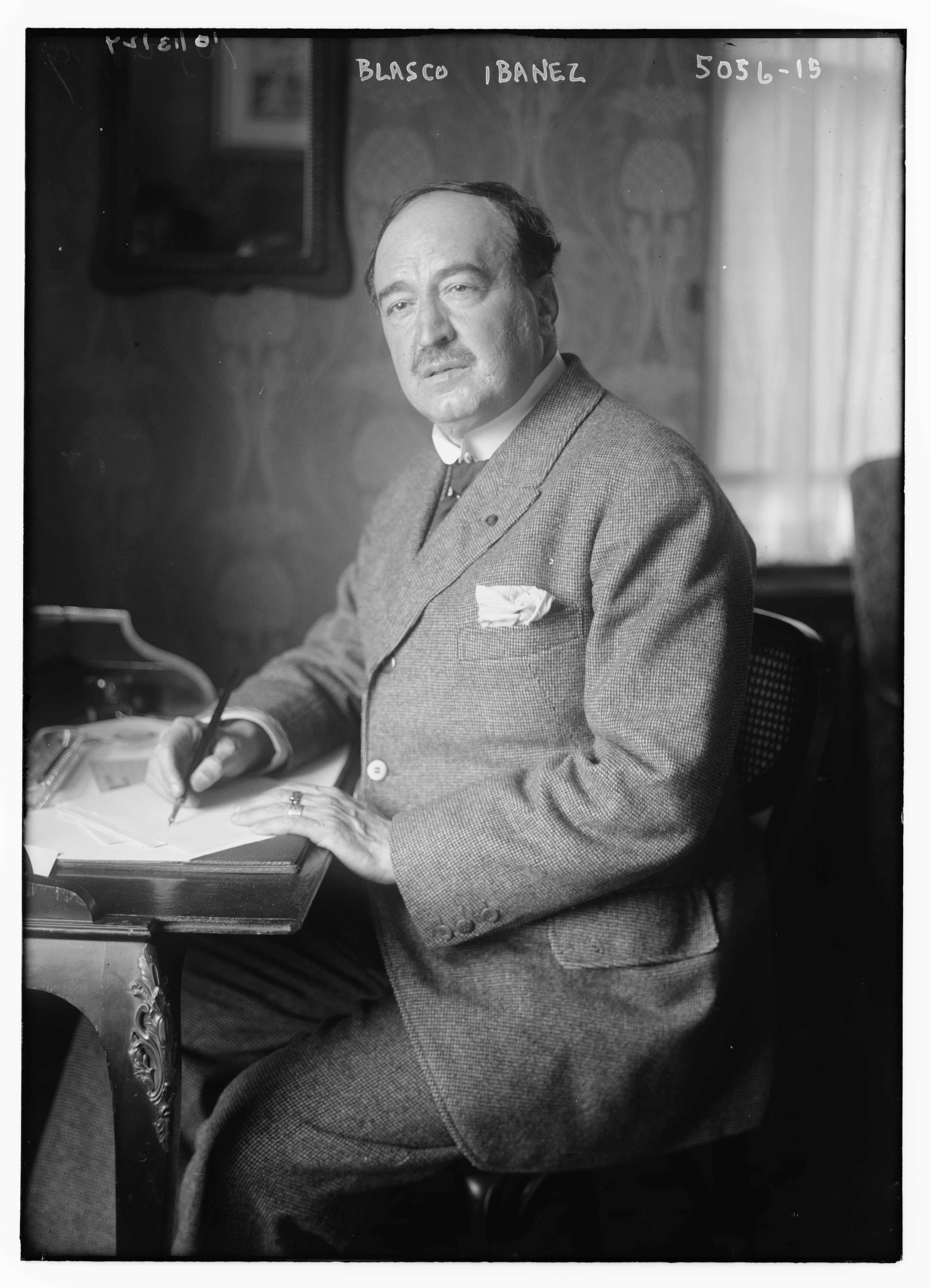 Vicente Blasco Ibáñez in 1919